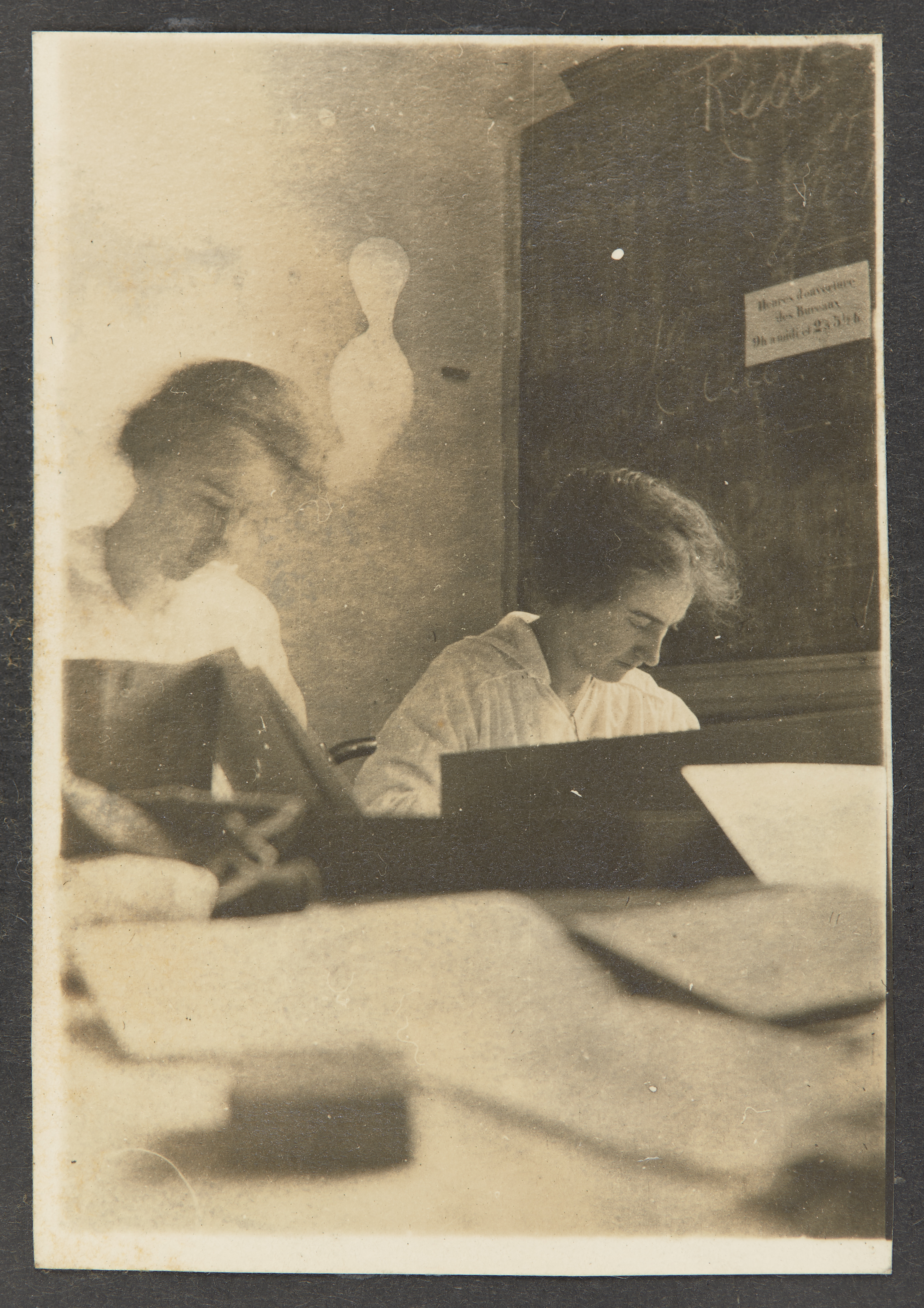 Guerre 1914-1918. Genève, musée Rath. Agence internationale des prisonniers de guerre. War 1914-1918. Geneva, musée Rath. International Prisoners-of-War Agency. Suzanne Ferrière (right) worked in the civilian section of the IWPA, which was headed by her uncle working in the civilian section of the IWPA, which was headed by her uncle Frédéric Ferrière during the First World War. She later became a committee member of the International Committee of the Red Cross (ICRC) and led the IWPA's civilian division during the Second World War. Photo uploaded as part of the International Archives Week 2020 joint initiative of Wikimedia Switzerland, Austria and Germany and the Association of Swiss Archivists.